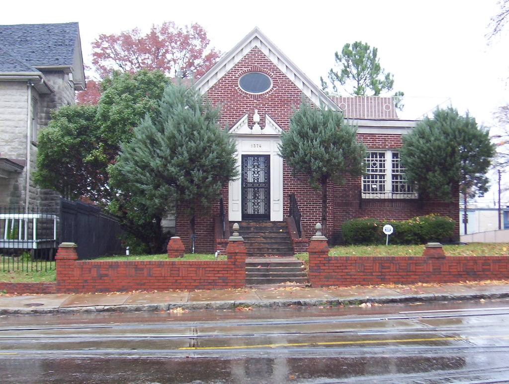 Photo of 1374 Madison Ave in Memphis, TN. From 1927-1948 the address of Laura Bullion, female Wildwest outlaw Photo made by: Thomas R Machnitzki (Dec 2007) I made the photo myself, feel free to use it.